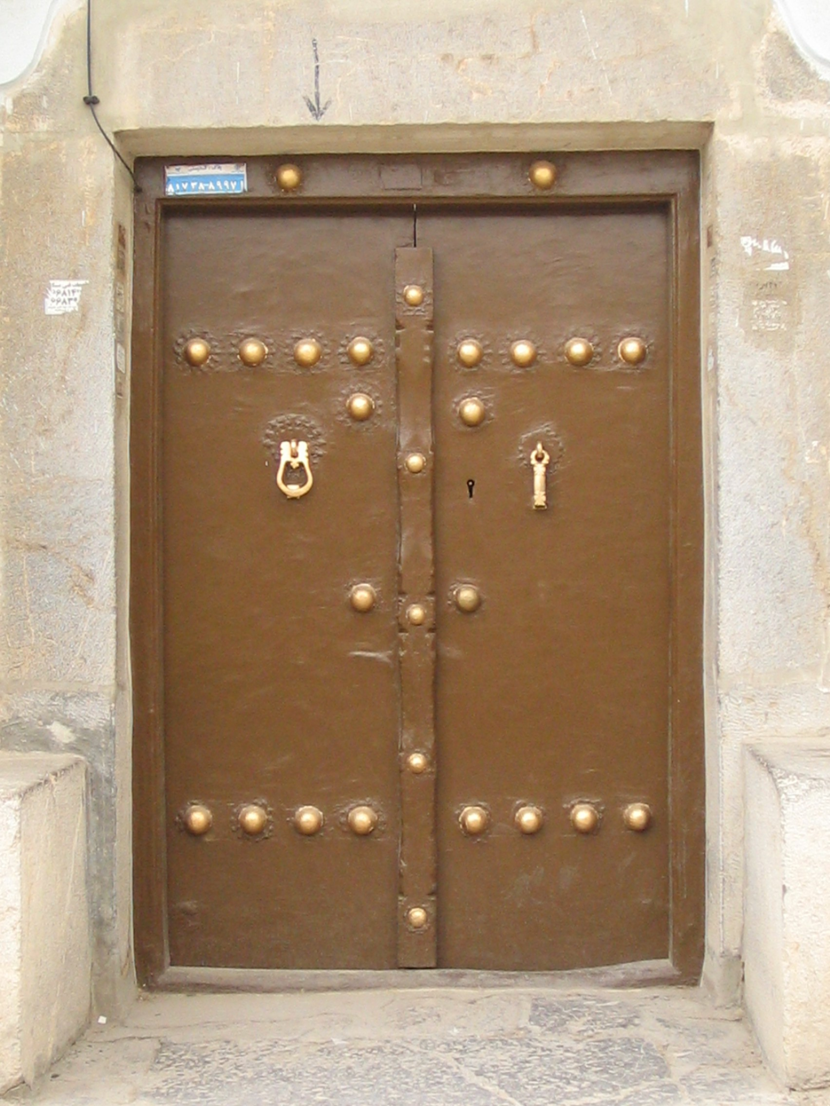 Old door in "New Jolfa", the Armenian area of Esfahan, Iran.